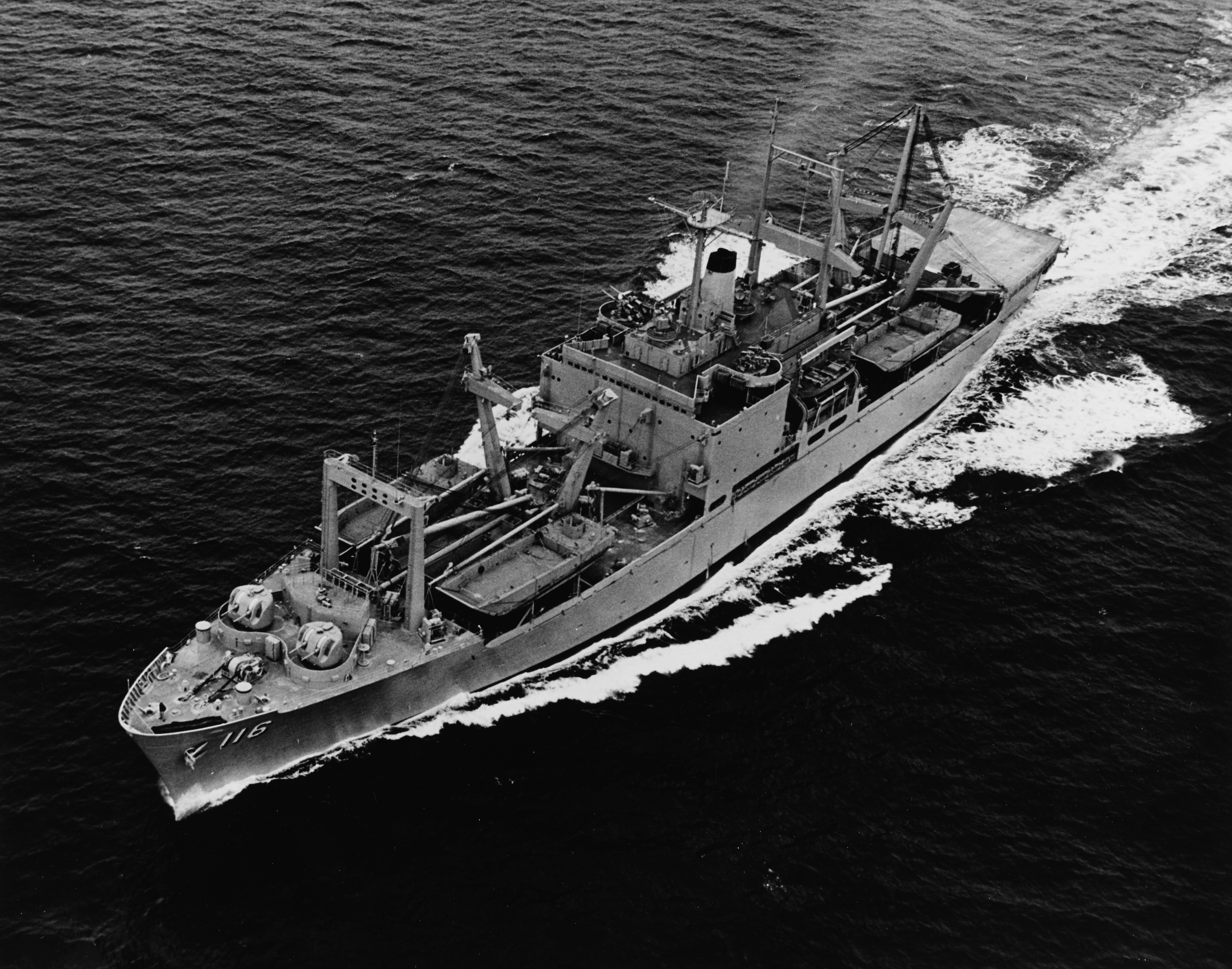 The U.S. Navy amphibious cargo ship USS St. Louis (LKA-116) underway during trials from the Newport News Shipbuilding and Drydock Co., 1 October 1969.